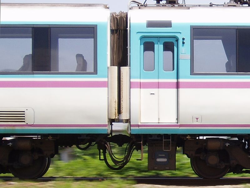 Guard Screen of Odakyu Electric Railway EMU Type 20000.